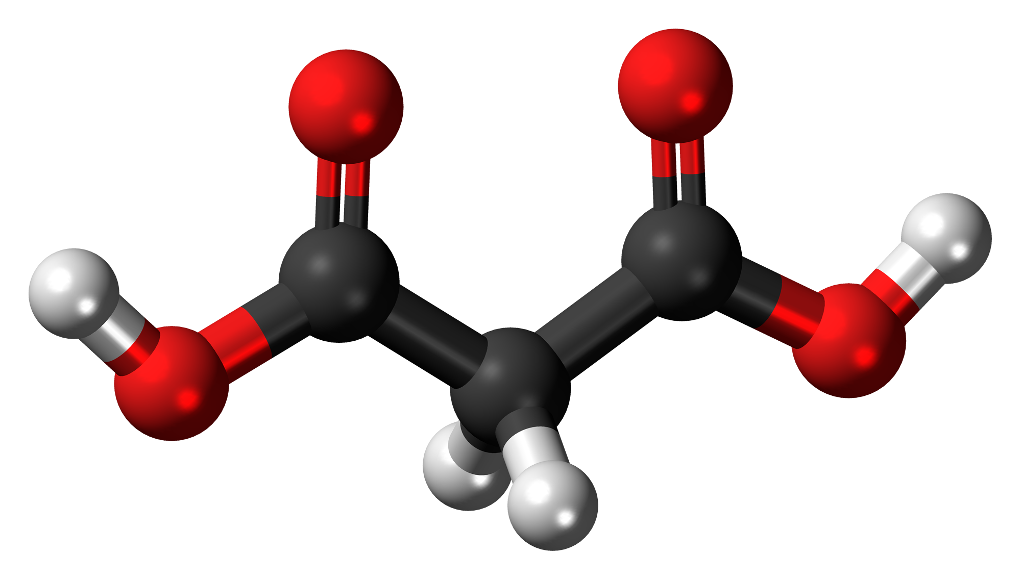 Ball-and-stick model of the malonic acid molecule, a dicarboxylic acid with 3 carbons. Colour code: Carbon, C: black Hydrogen, H: white Oxygen, O: red